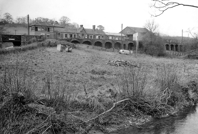 Bishop's Nympton & Molland Station. SW view across River Yeo to station on ex-GWR Taunton - Norton Fitzwarren - Barnstaple line - three miles from Bishop's Nympton one way and nearly as from Molland the other, which was closed with the whole line from Norton Fitzwarren to Barnstaple on 3/10/66.